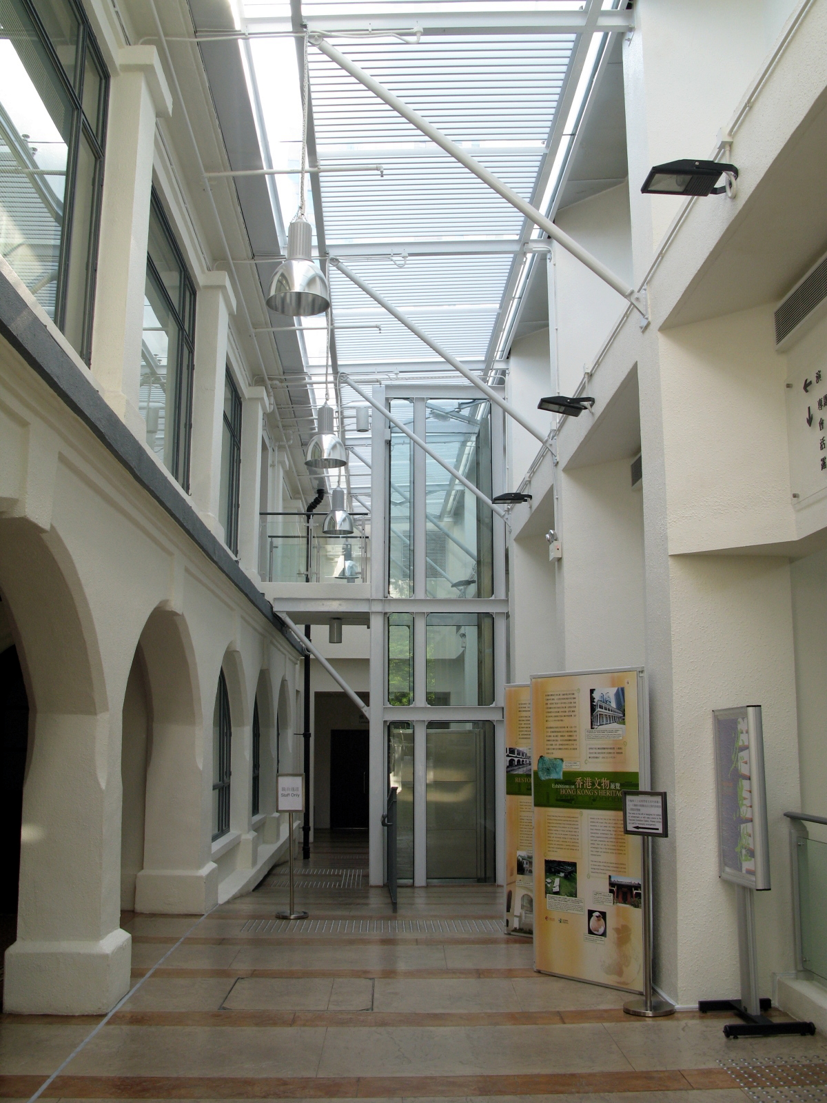 HK Heritage Discovery Centre